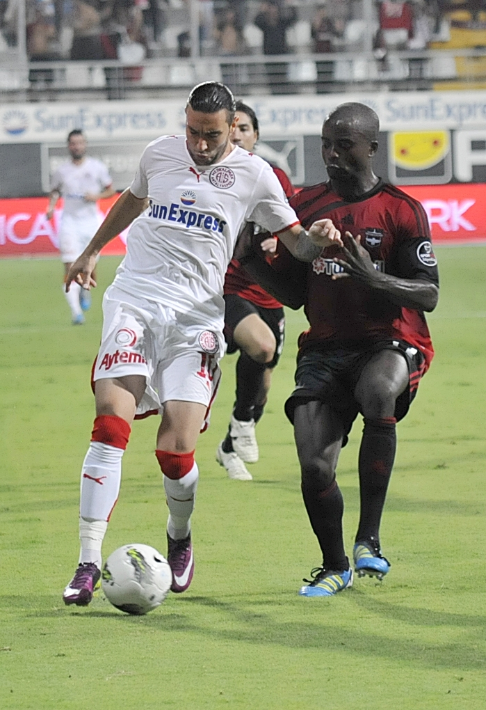 Dany and former Antalayaspor player Necati